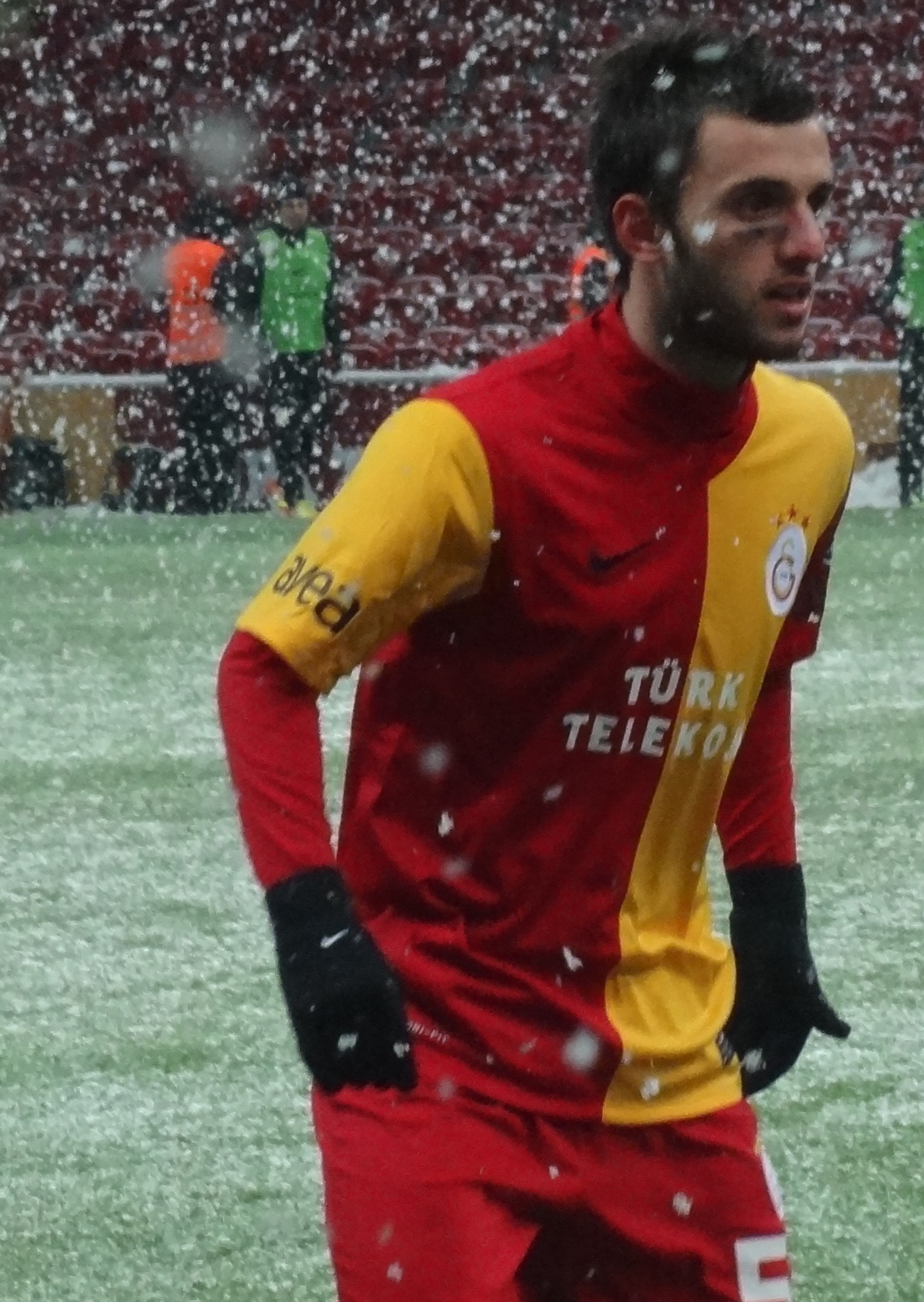 Emre Çolak vs Antalya